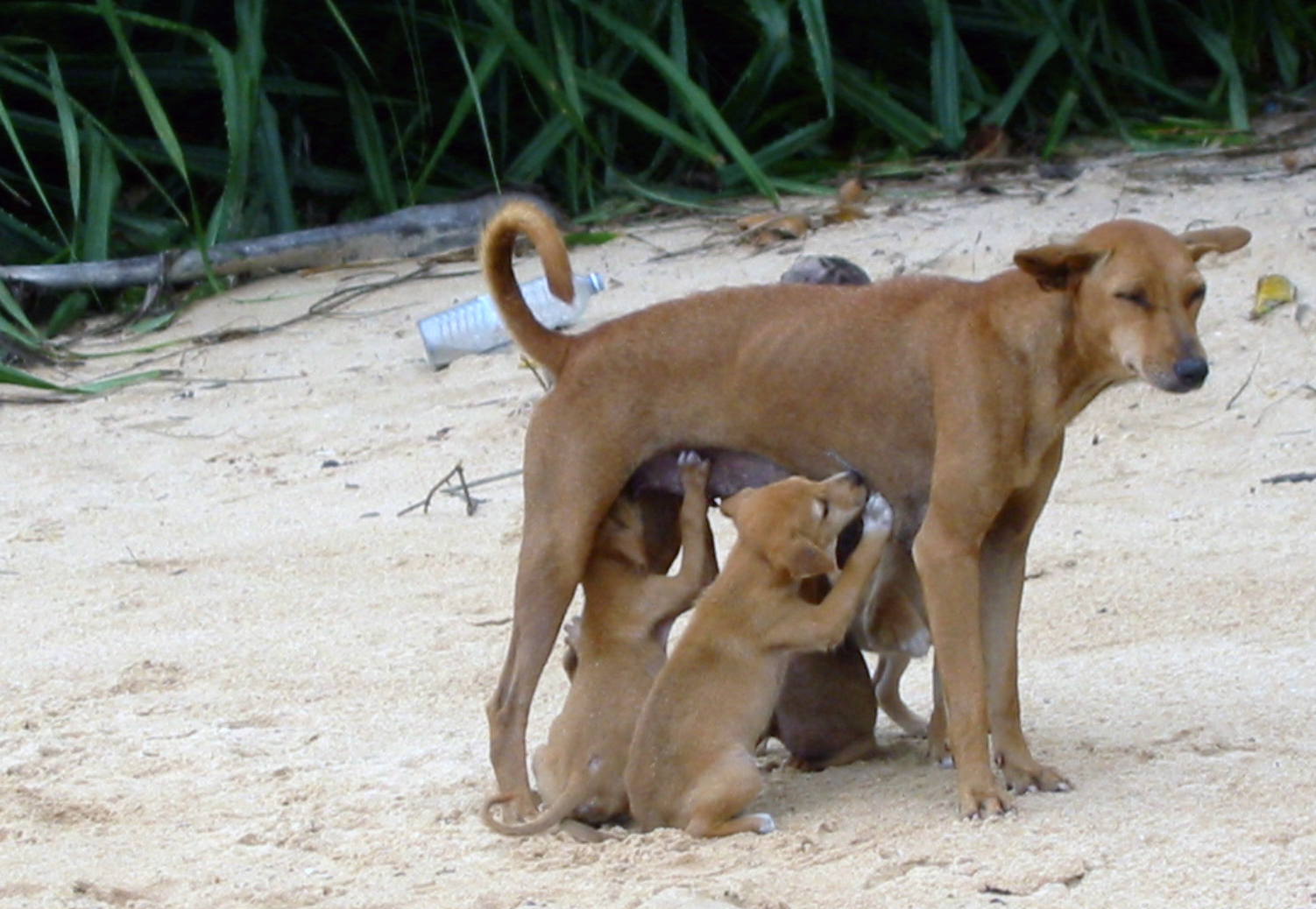 A Sri Lanka wild dog nursing her pups. The mother shows many typical characteristics of the indigenous Sinhala Hound.